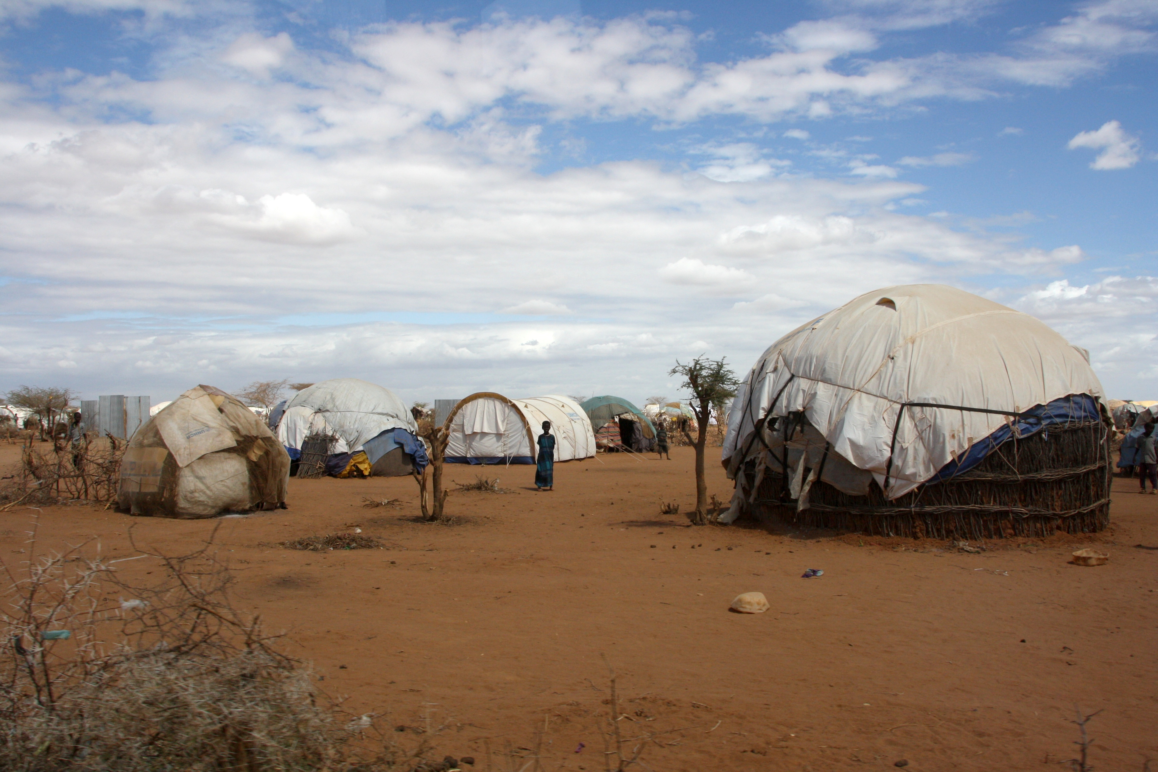 Photo: Pete Lewis/Department for International Development